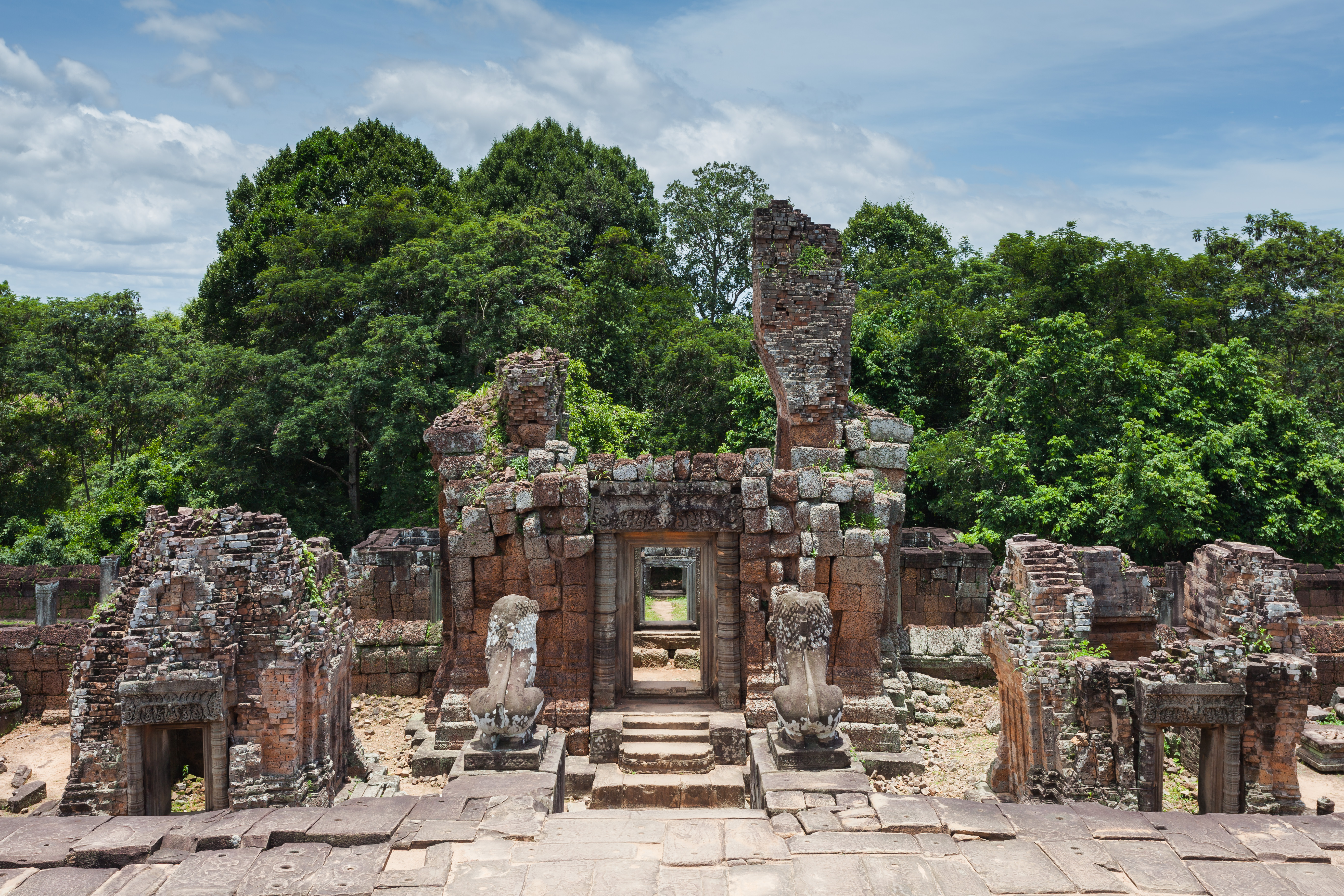 Mebon Oriental, Angkor, Cambodia